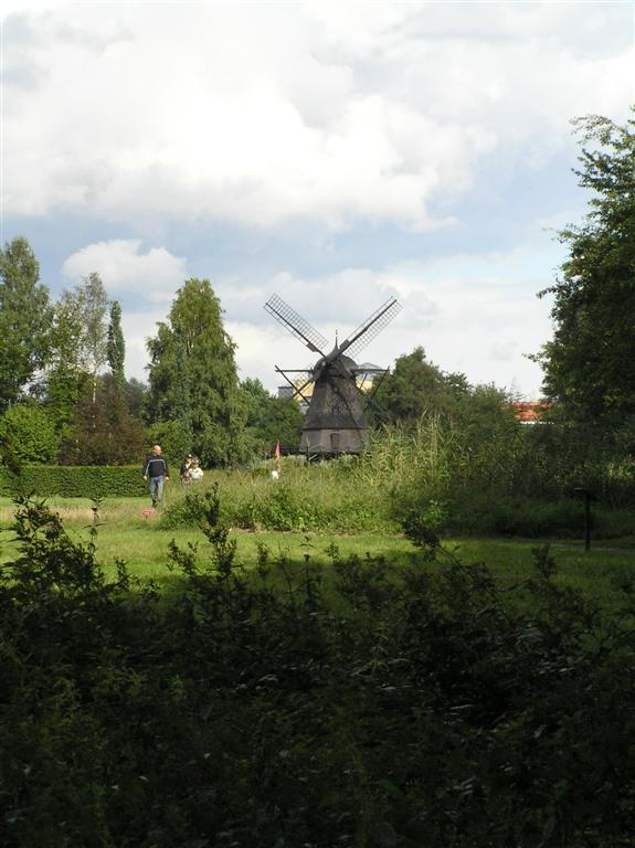 Photo: Bengt Olof ÅRADSSON